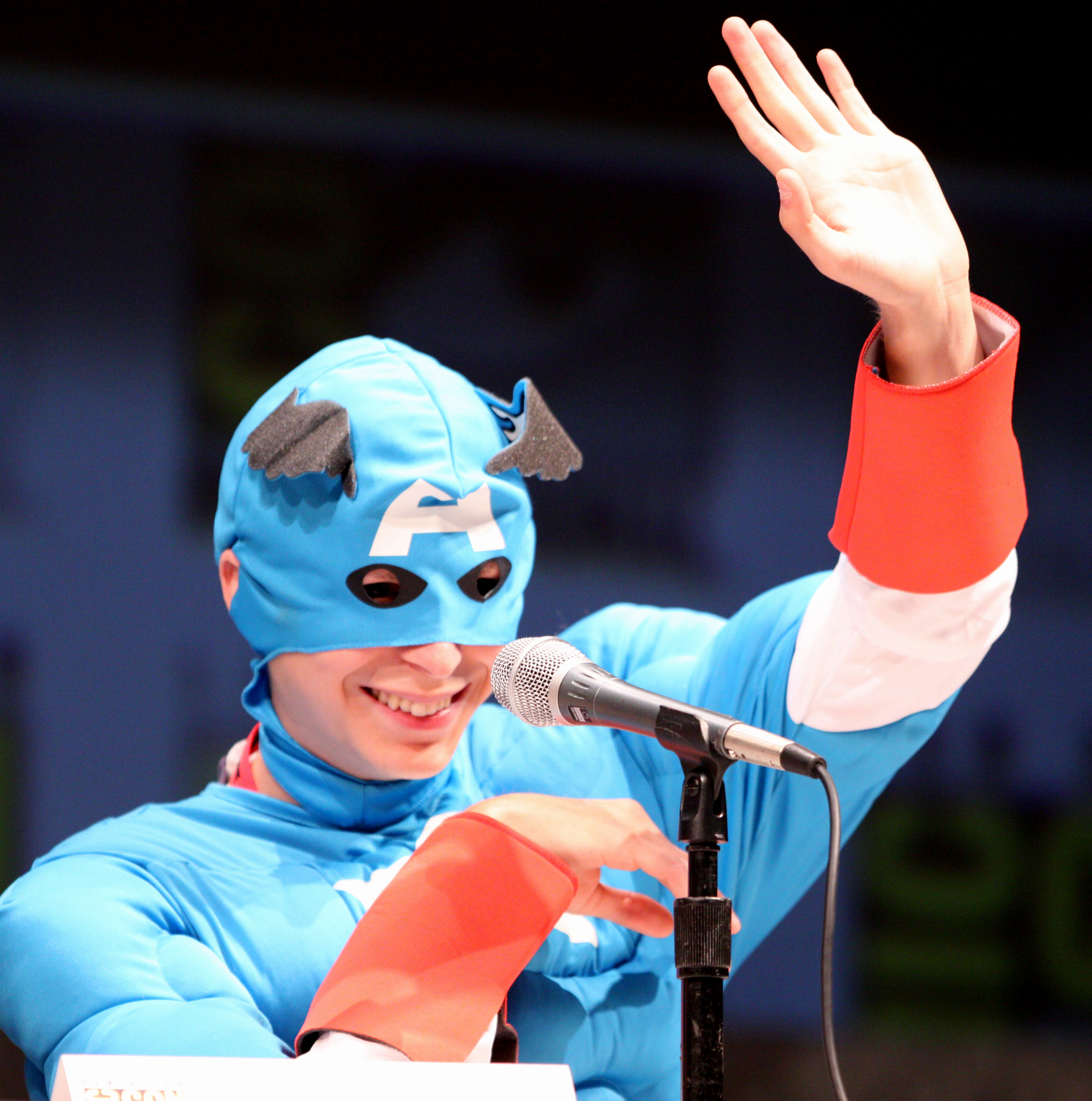 Michael Cera at the 2010 Comic Con in San Diego